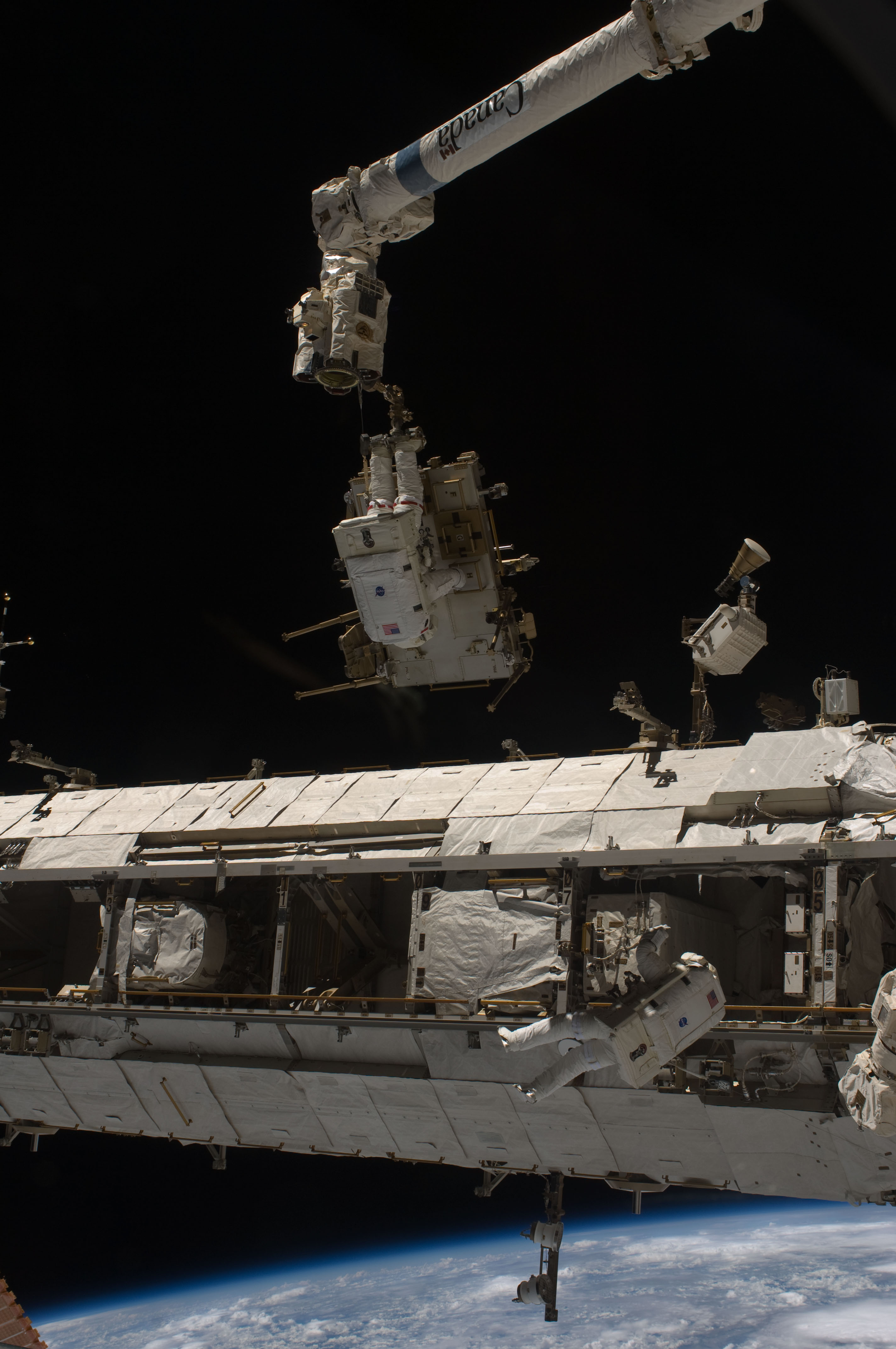 Astronauts Richard Arnold (right) and Joseph Acaba, both STS-119 mission specialists, participate in the mission's third scheduled session of extravehicular activity (EVA) as construction and maintenance continue on the International Space Station. During the six-hour, 27-minute spacewalk, Arnold and Acaba helped robotic arm operators relocate the Crew Equipment Translation Aid (CETA) cart from the Port 1 to Starboard 1 truss segment, installed a new coupler on the CETA cart, lubricated snares on the "B" end of the space station's robotic arm and performed a few "get ahead" tasks.